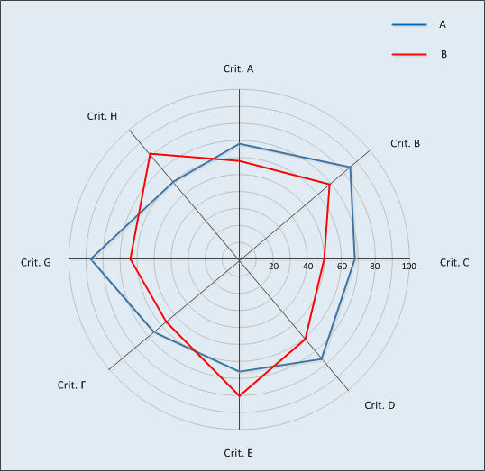 Yet another radar diagram